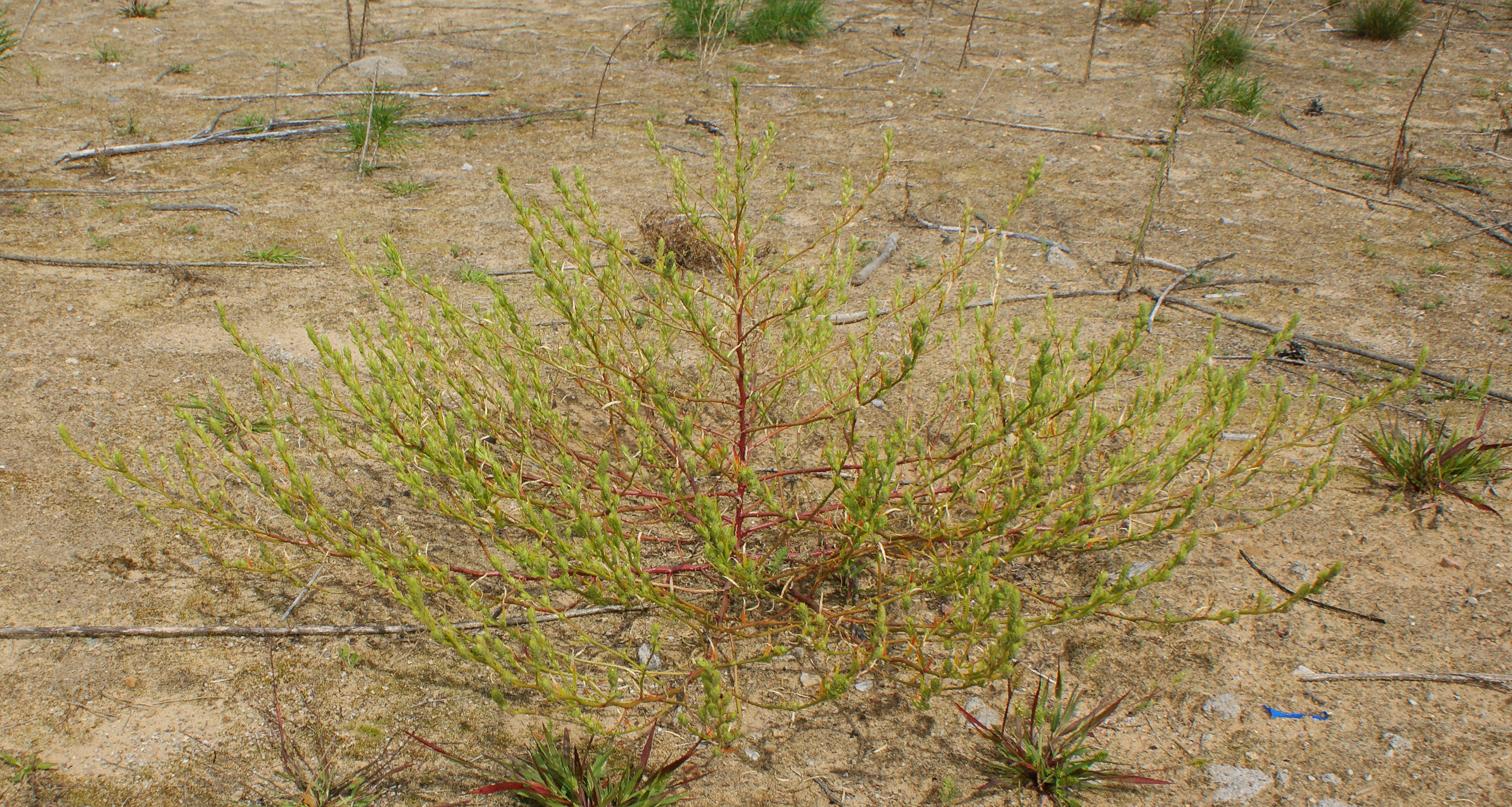 Corispermum leptopterum